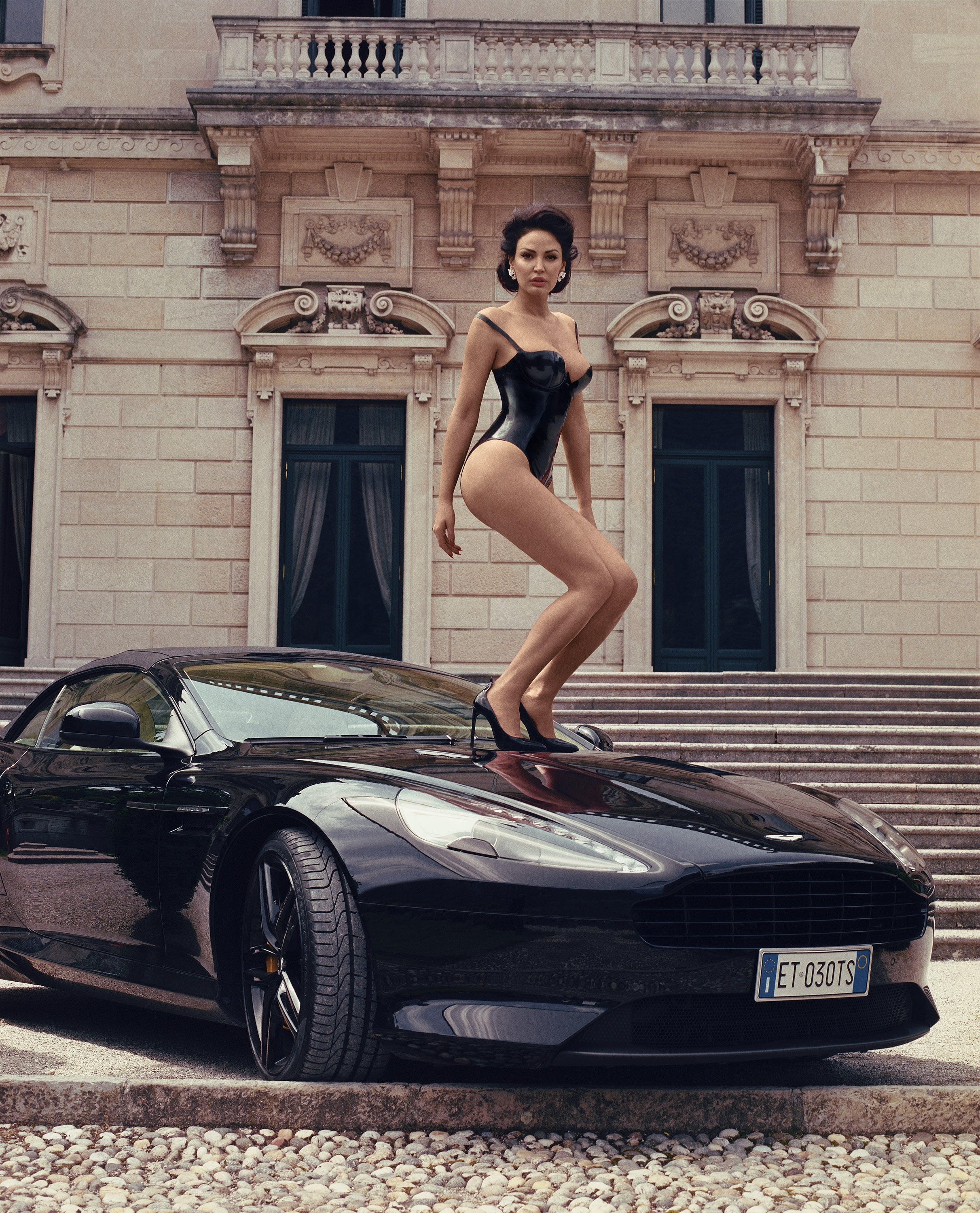 Bleona shooting the video of "Monster" In 2018 In Villa Erba Lake Como Italy